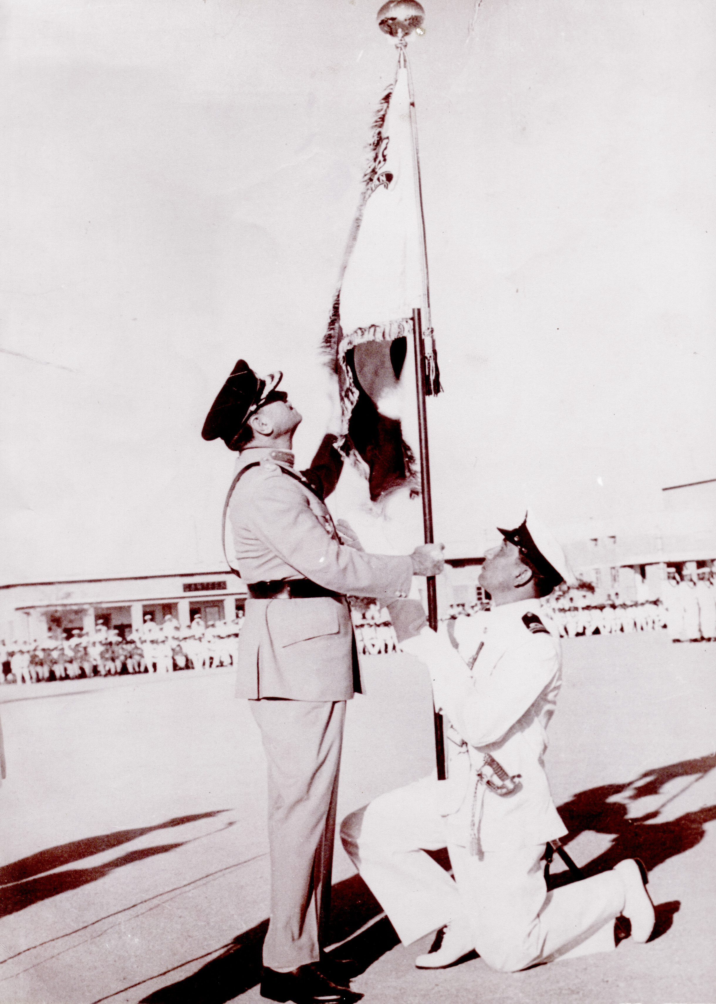 History-2